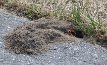 A female eastern cicada killer, Sphecius speciosus, digging a burrow at the edge of a driveway in Pennsylvania, USA.